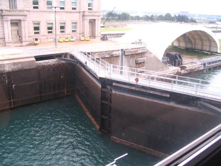 A photo of the Soo Locks at Sault Ste Marie, Michigan taken in July of 2010.